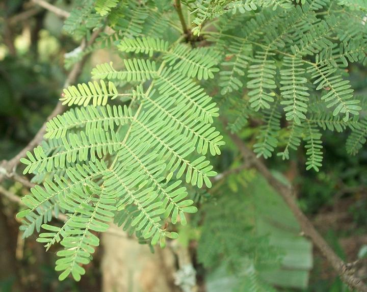 Acacia xanthophloea leaves at Umdoni Bird Sanctuary